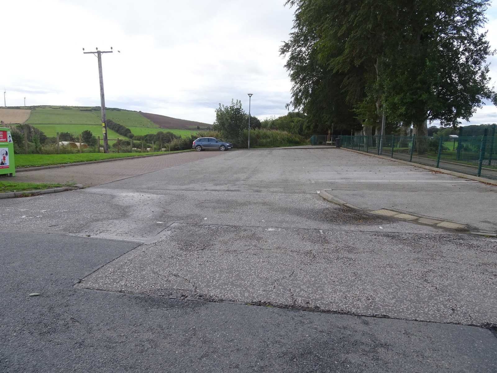 Rothienorman railway station (site), AberdeenshireOpened in 1857 by the Banff Macduff & Turriff Junction Railway, later part of the Great North of Scotland Railway, on the line from Inveramsay to Macduff, this station closed to passengers in 1951 and completely in 1966. View south on the former track-bed towards Wartle and Inveramsay. The main station building would have been to the right. It is now a car park.